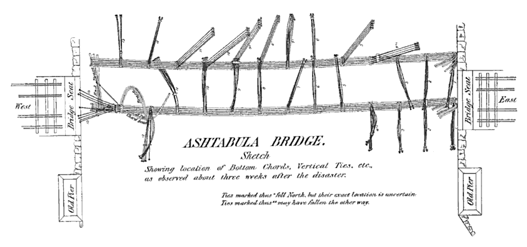 Sketch by Albert S. Howland of an aerial view of the wreckage of the Ashtabula Bridge in Ashtabula, Ohio, in the United States, in January 1877. The bridge collapsed on the night of December 29, 1876. Howland, a civil engineer, examined the wreckage three weeks after the accident and sketched the position of the various parts of the bridge as they lay in the valley below.